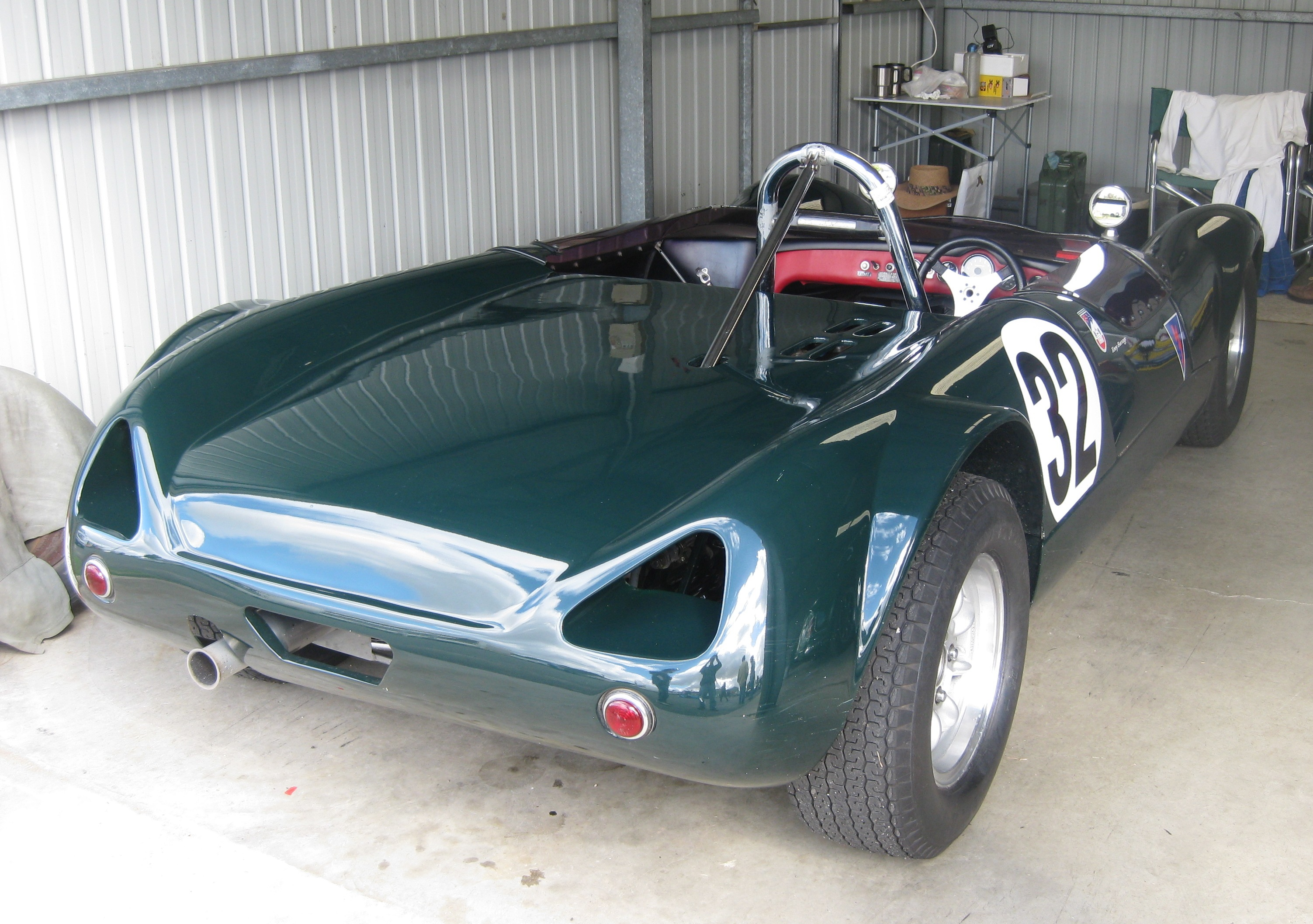 The 1965 Rennmax 23B of Tony Burrage at Mallala Motor Sport Park on 23 April 2011. The Rennmax 23B was built in Australia by Rennmax Engineering as a copy of the Lotus 23B sports racing car.